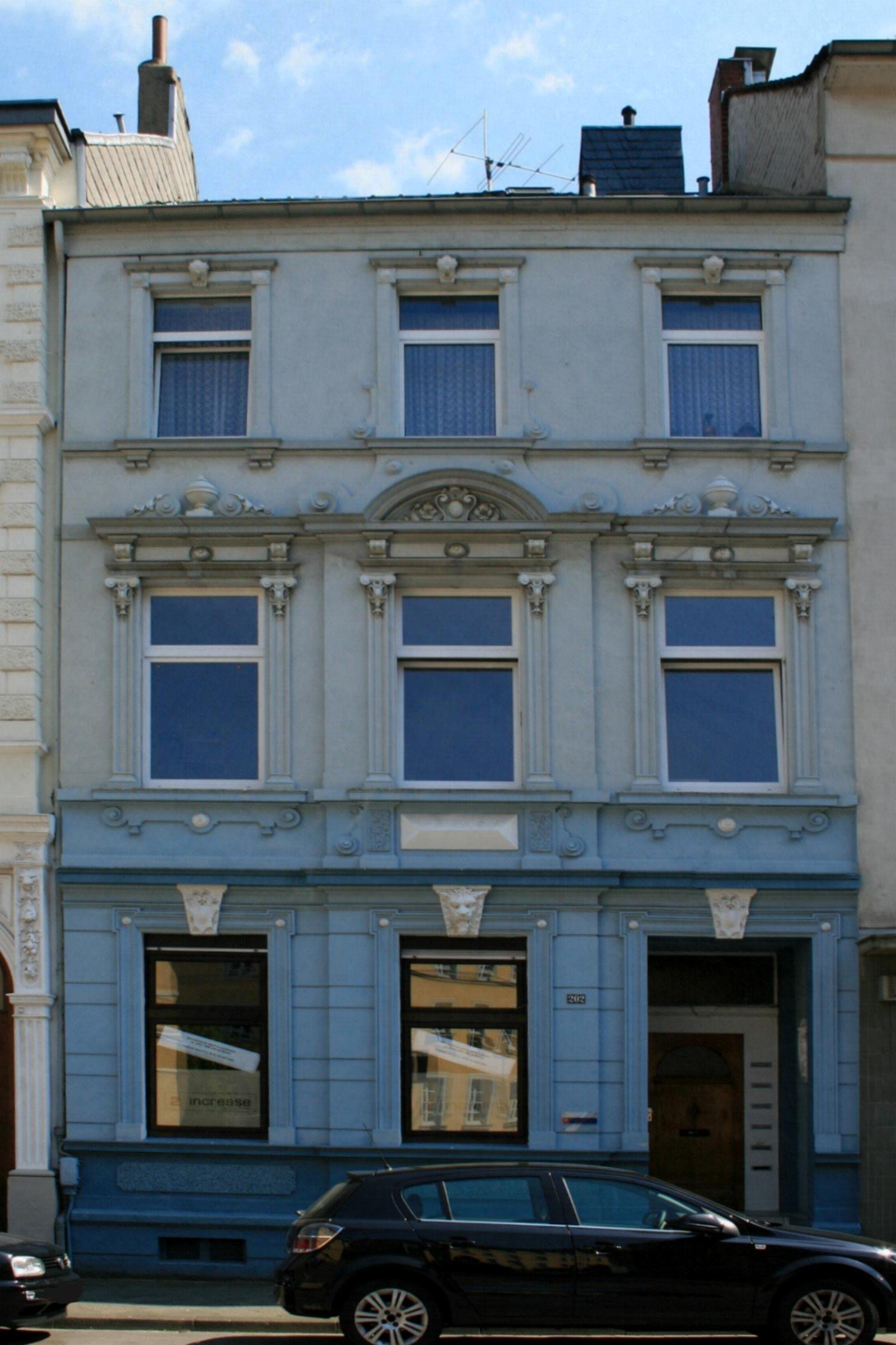 Cultural heritage monument No. R 072 in Mönchengladbach